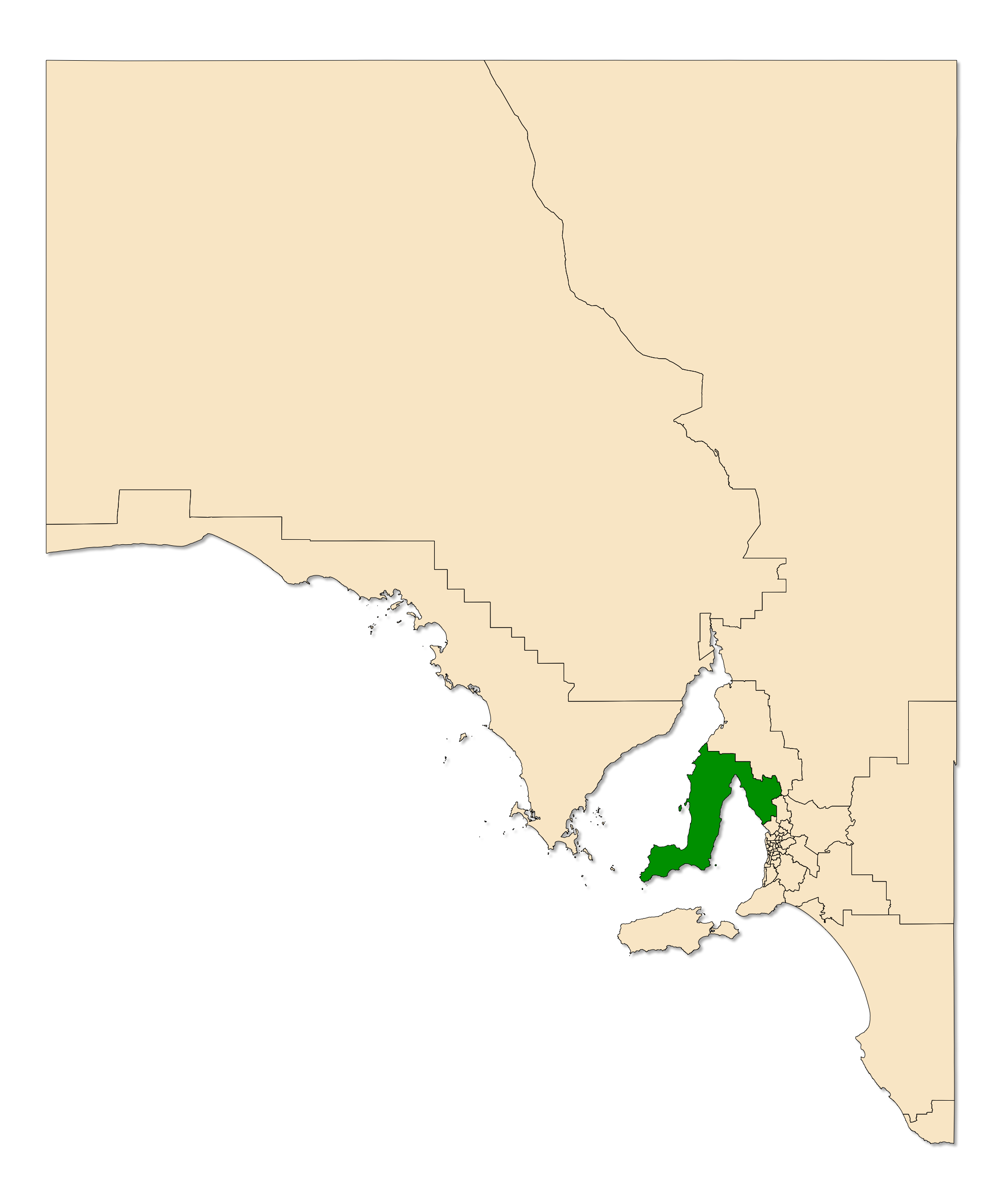 The South Australian electoral district of Goyder, shown dark green in the state of South Australia. Map derived from data at South Australia Department of Planning, Transport and Infrastructure, licensed under a Creative Commons Attribution 3.0 Australia Licence.